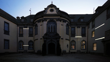 At the courtyard of Schloss Dyck. 3 of 5 double-stripes moving over the refurbished surface of the old building at Jüchen.